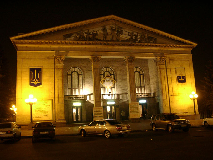 Dramatic theatre (at night) Mariupol (Ukraine)